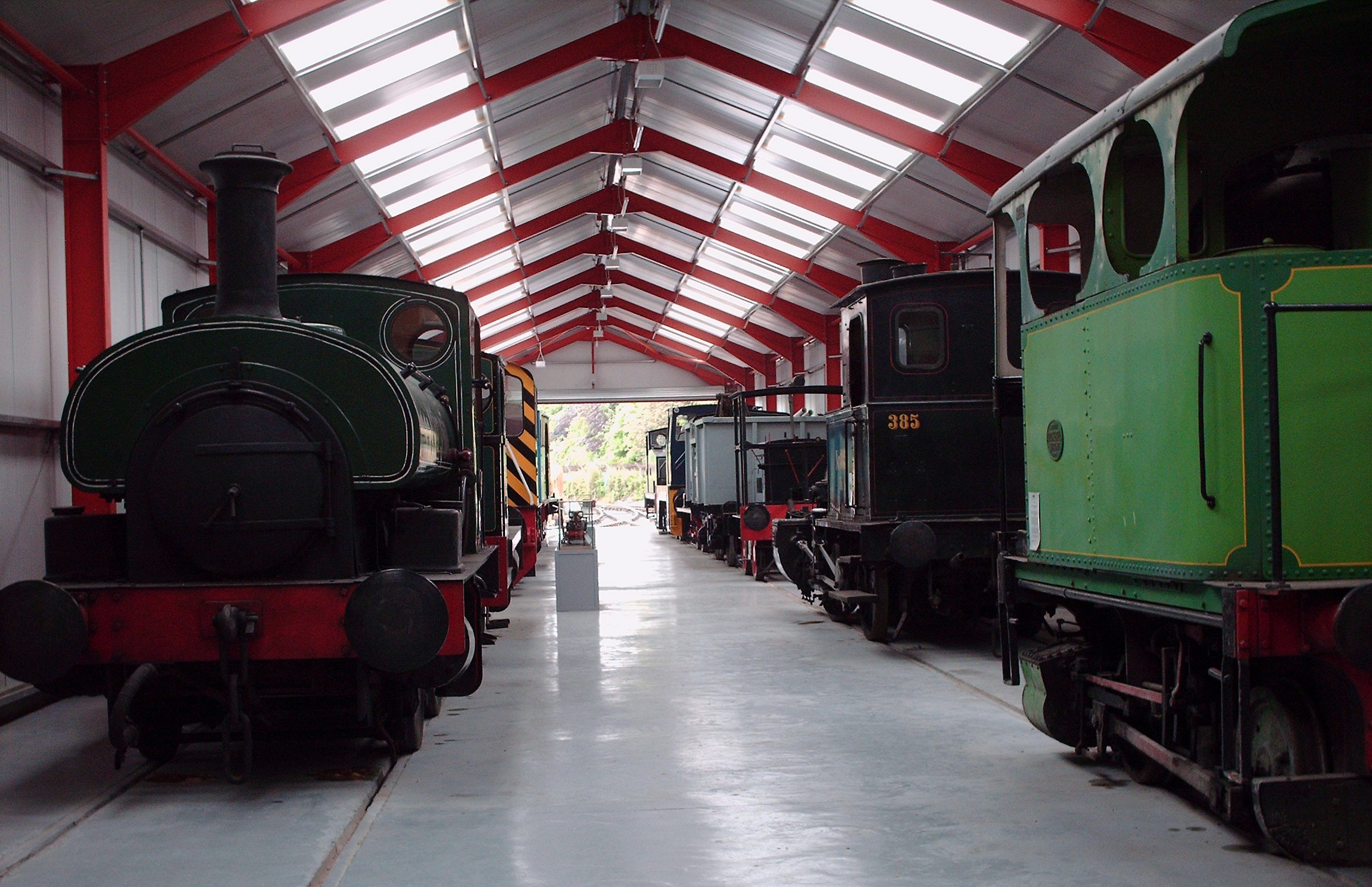 Middleton Railway, Leeds, England. Engine shed museum.